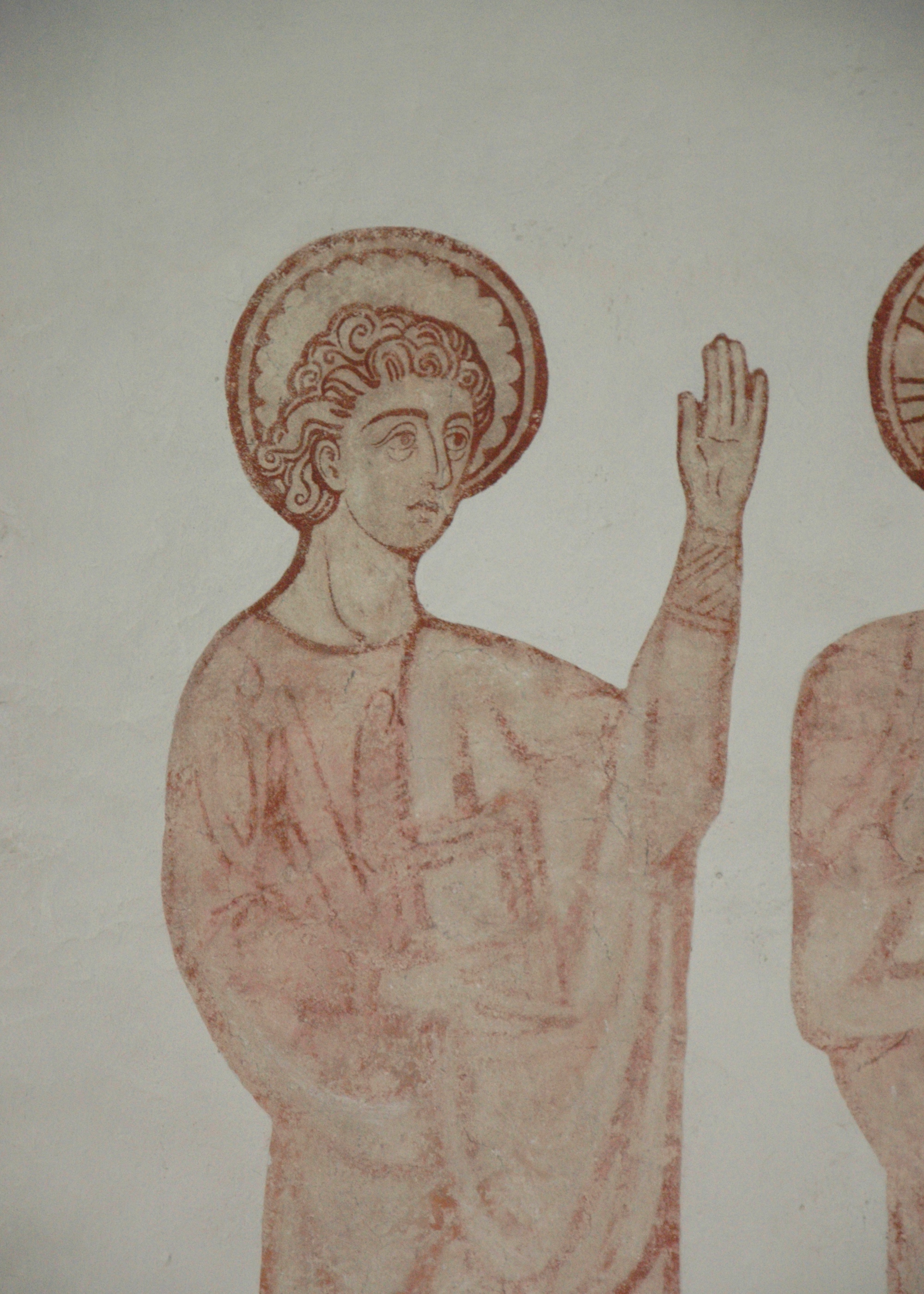 Church of England parish church of Saints Peter and Paul, Checkendon, Oxfordshire